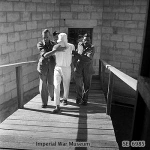 Lieutenant Nakamura, his head covered with a white hood, is led to the scaffold where he will be hung after being found guilty of beheading an Indian soldier with his sword on the Pulau Islands.